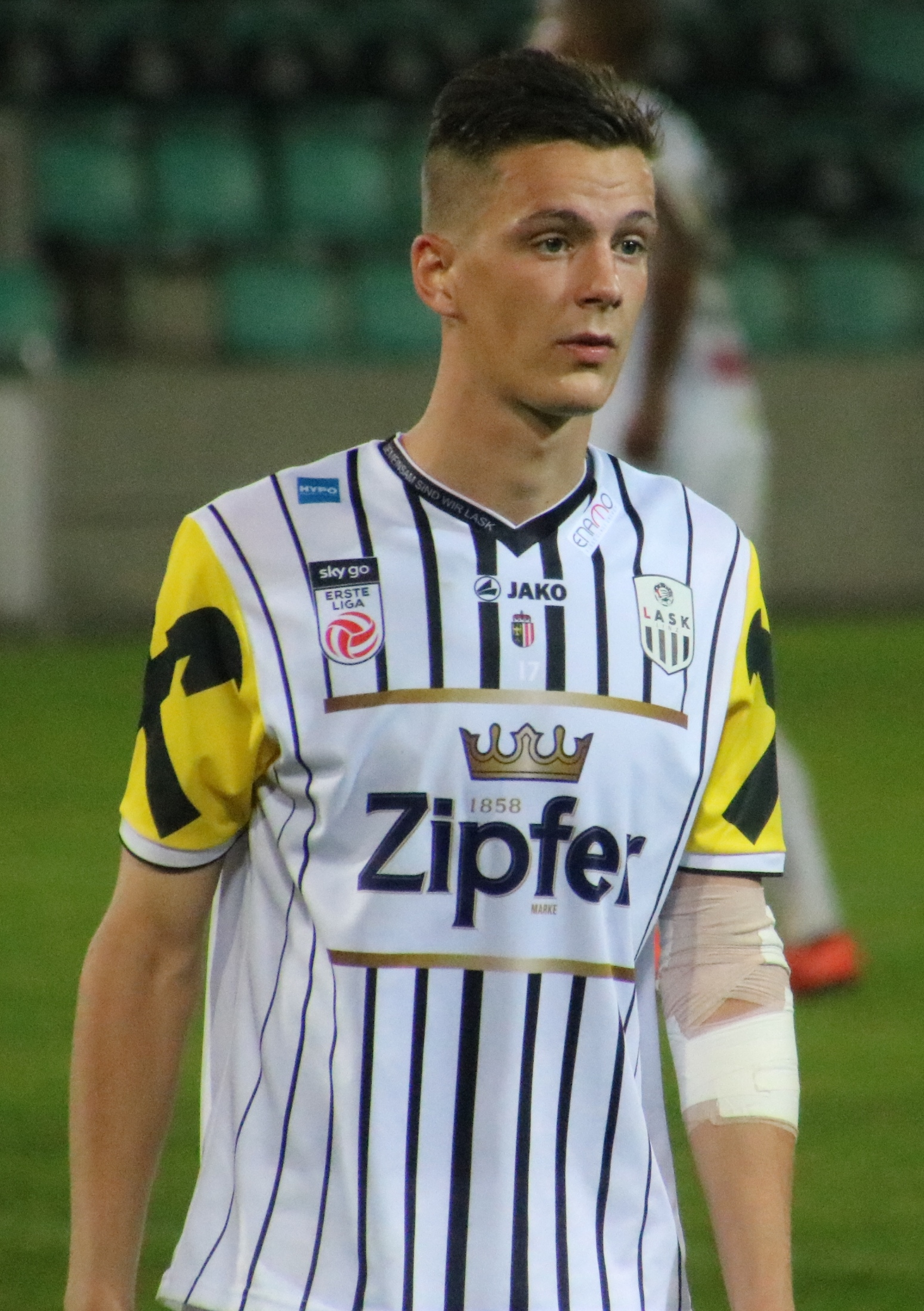 league match Austria 2nd league